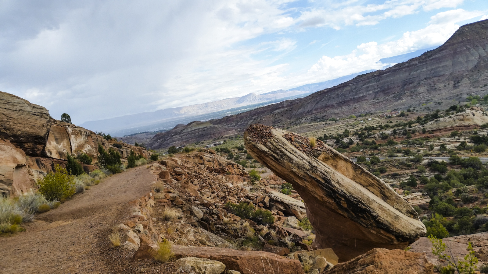 Walking Serpents Trail in Colorado National Monument. This awesome road was constructed between 1912 and 1921. Serpents Trail provided the only automobile access to Colorado National Monument until 1937. Amazing View!